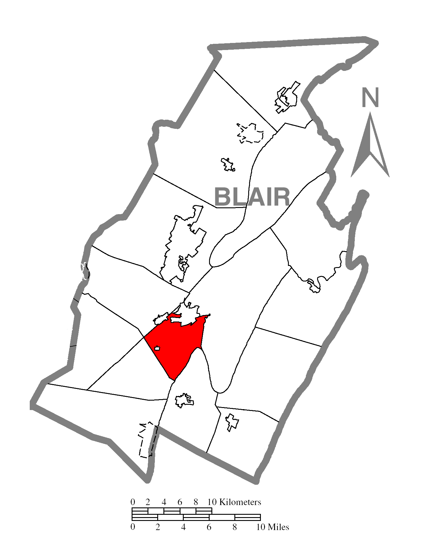 A map of Blair County showing Blair Township, Pennsylvania (alternate) highlighted on the map.